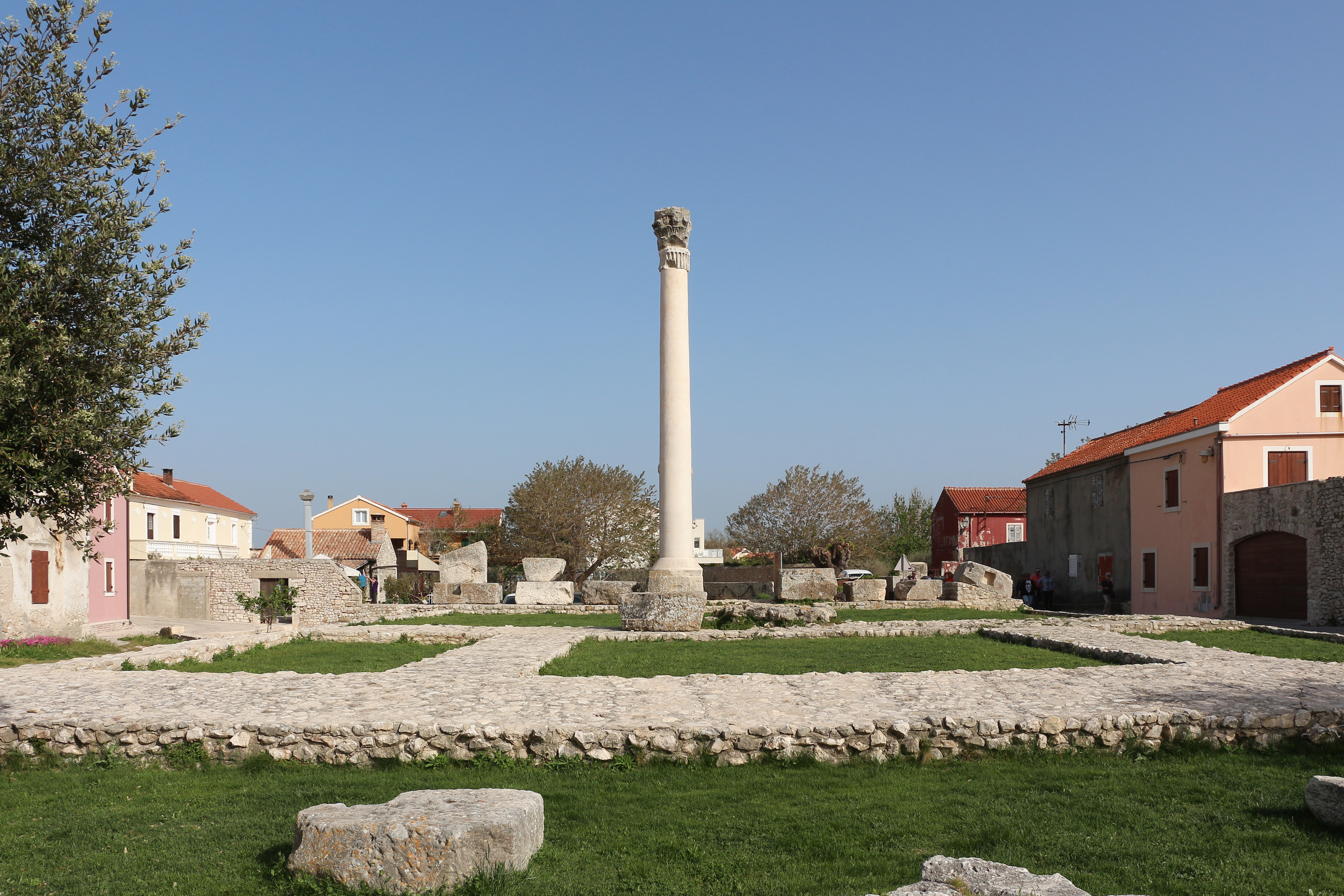 Remains of Roman Temple, Nin, Croatia